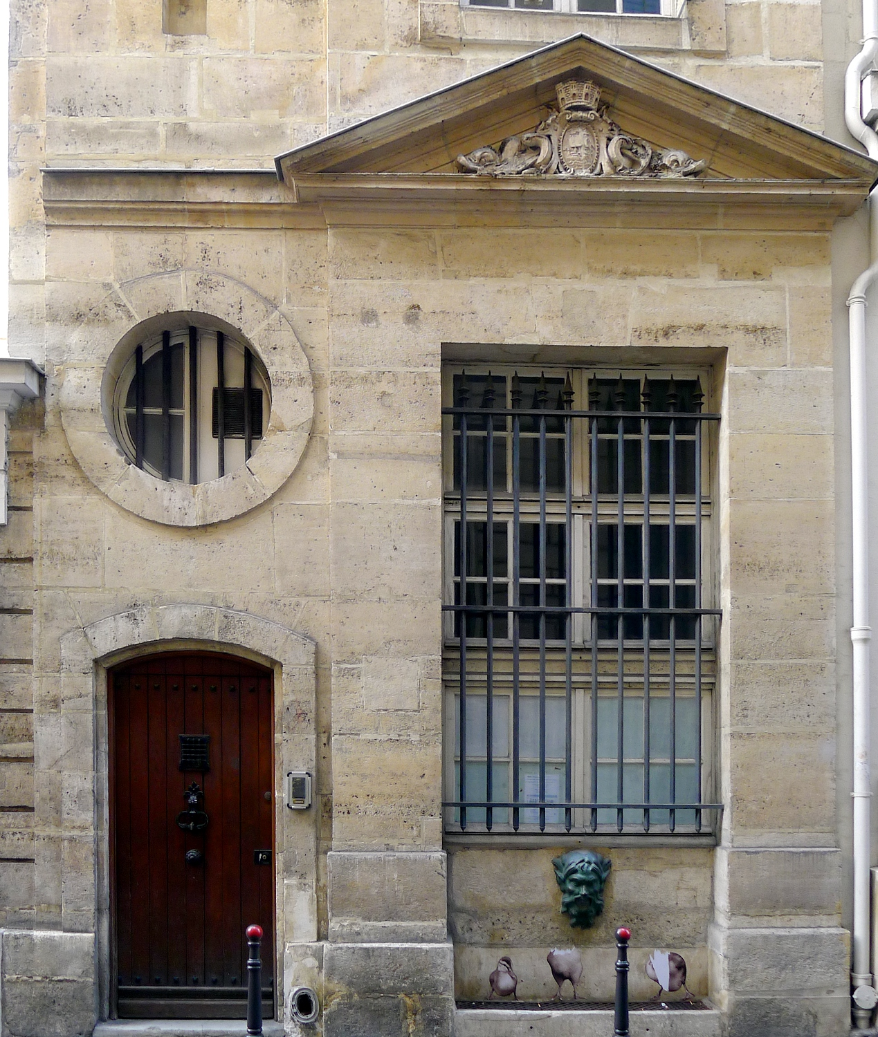 Colbert fountain - Paris